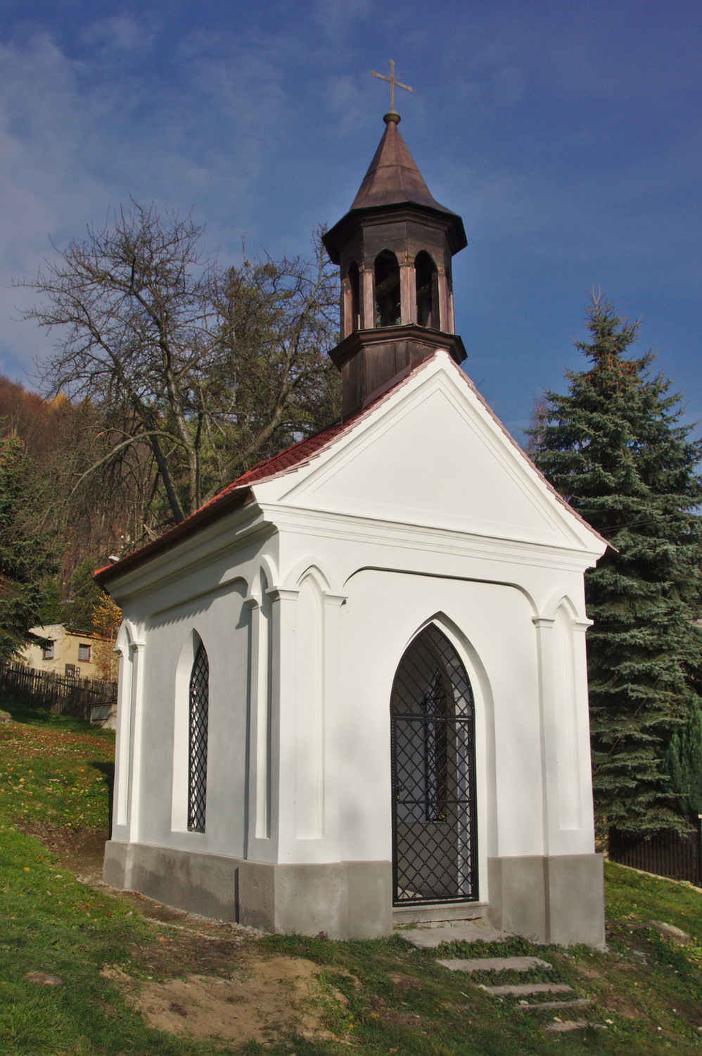 Libonov chapel in 2015.